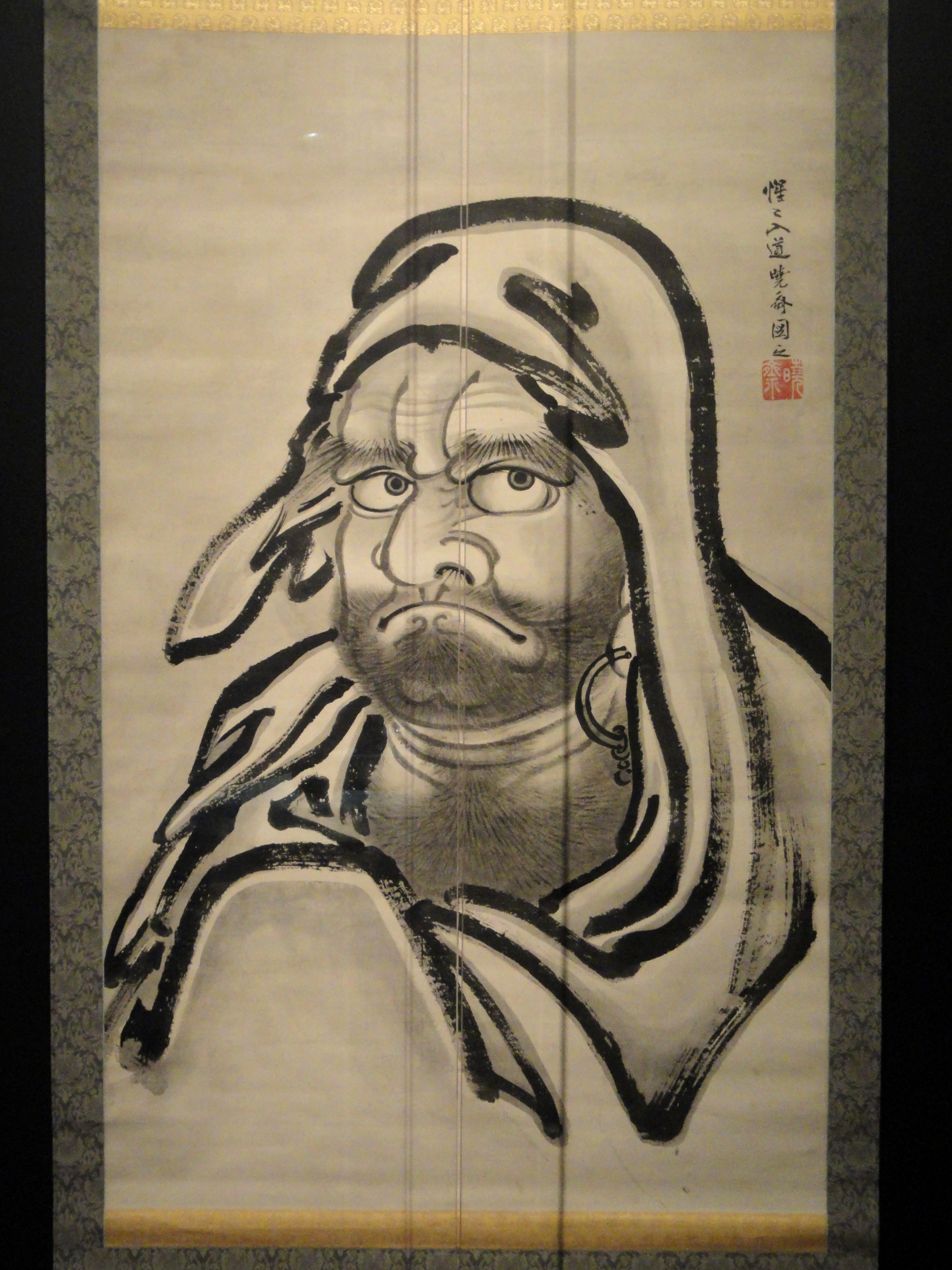 Daruma by Kawanabe Kyōsai (河鍋 暁斎, May 18, 1831 – April 26, 1889). Exhibit in the Indianapolis Museum of Art, Indianapolis, Indiana, USA.